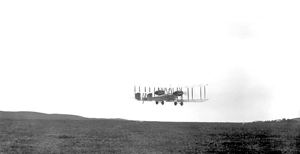 Take-off of Alcock and Brown from St. John's, Newfoundland in 1919